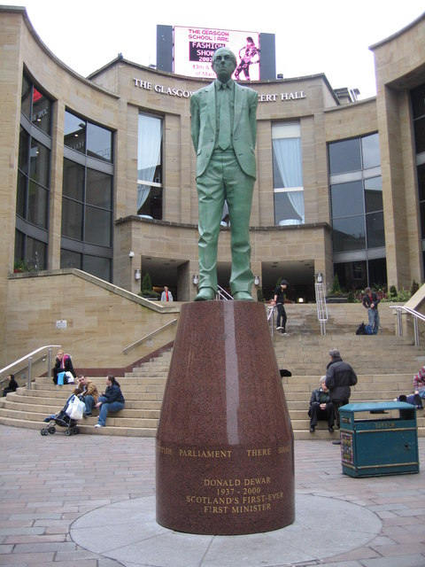 The First Ever First Minister